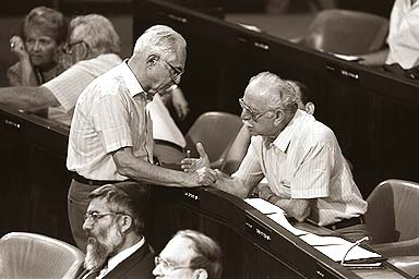 Tawfik Toubi in the Israeli Knesset